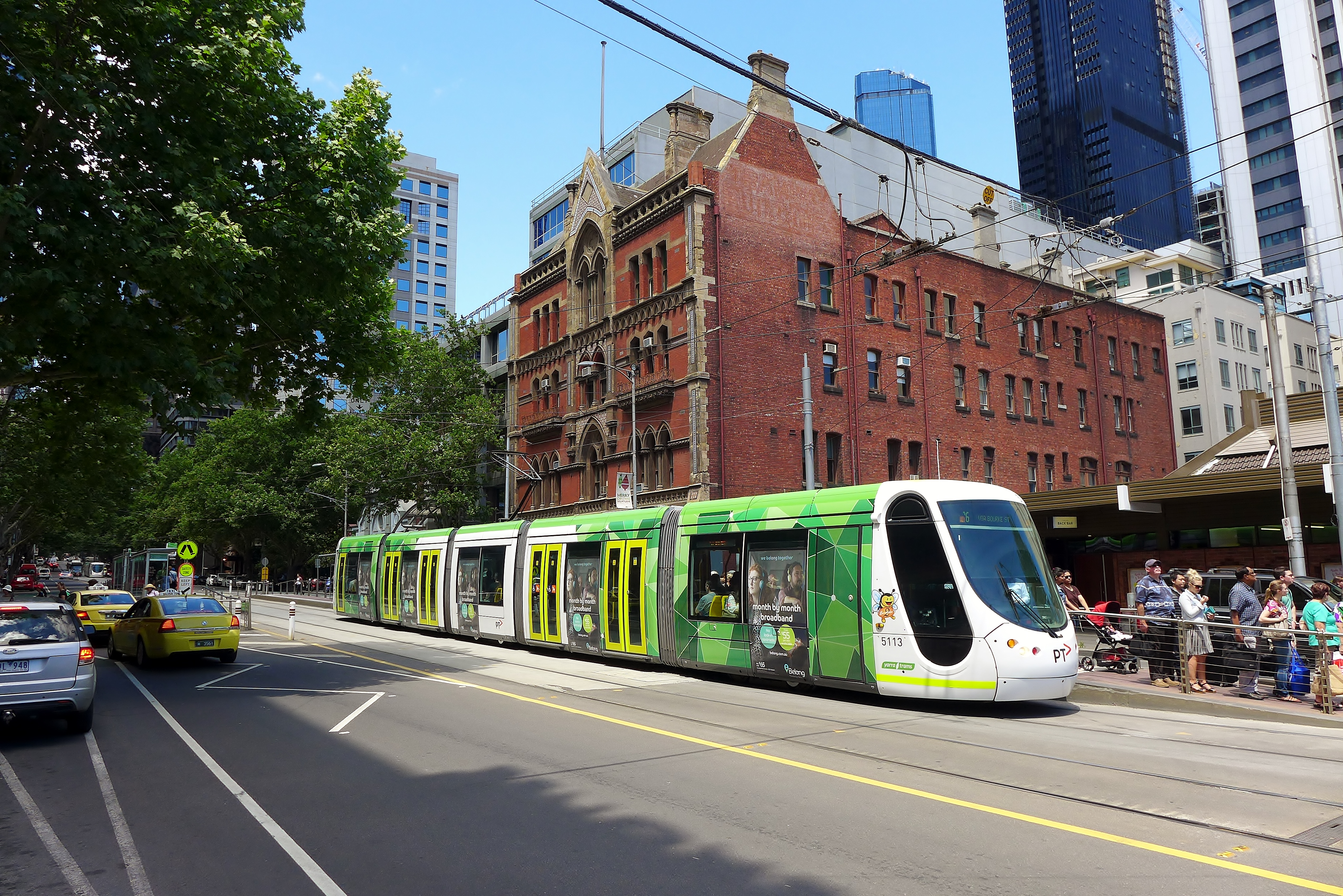 C2 class Citadis tram no 5113 at the Southern Cross Station stop at the west end of Bourke Street, with a route 96 service from East Brunswick to St Kilda Beach in Melbourne, Australia.